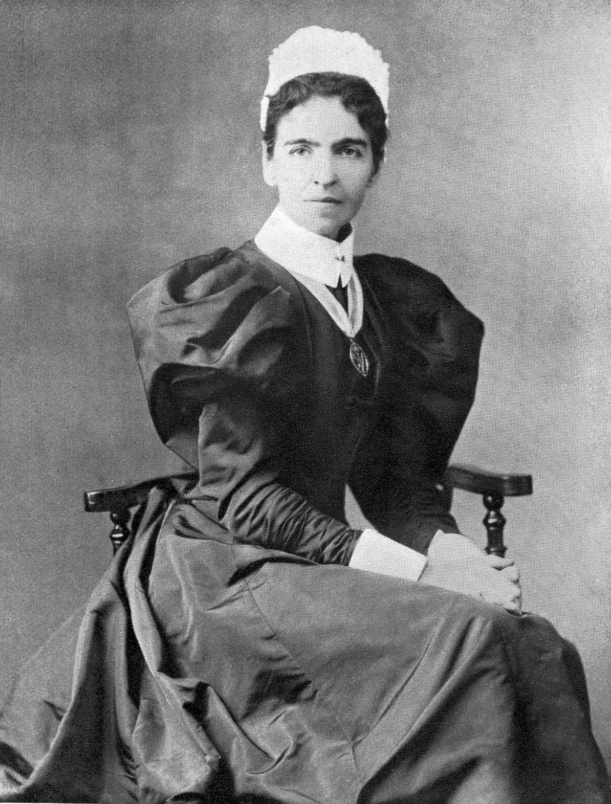 Nurses: portraits and uniforms. Mary Stocks, A hundered years of district nursing, London: Allen & Unwin, 1960. Half-tone reproduction of Dame Rosalind Paget, 1st Queen's nurse and Inspector, page 65. General Collections Keywords: dame rosalind paget; gc; queens nurse; uniforms; Nursing; Portraits